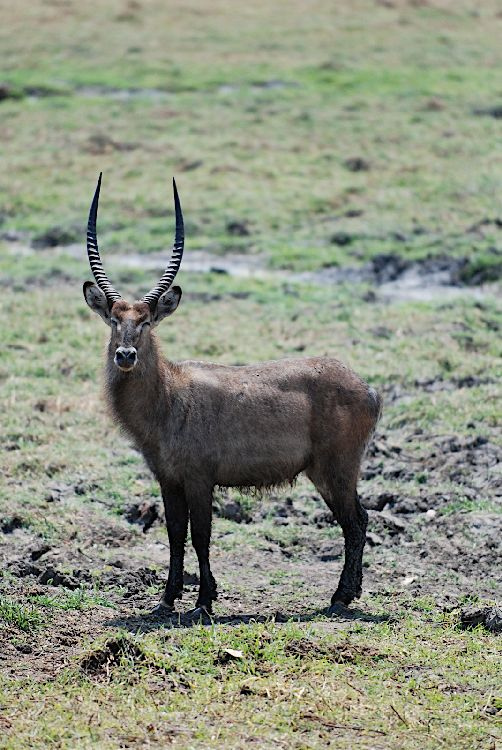 Waterbuck in Katavi National Park, Tanzania